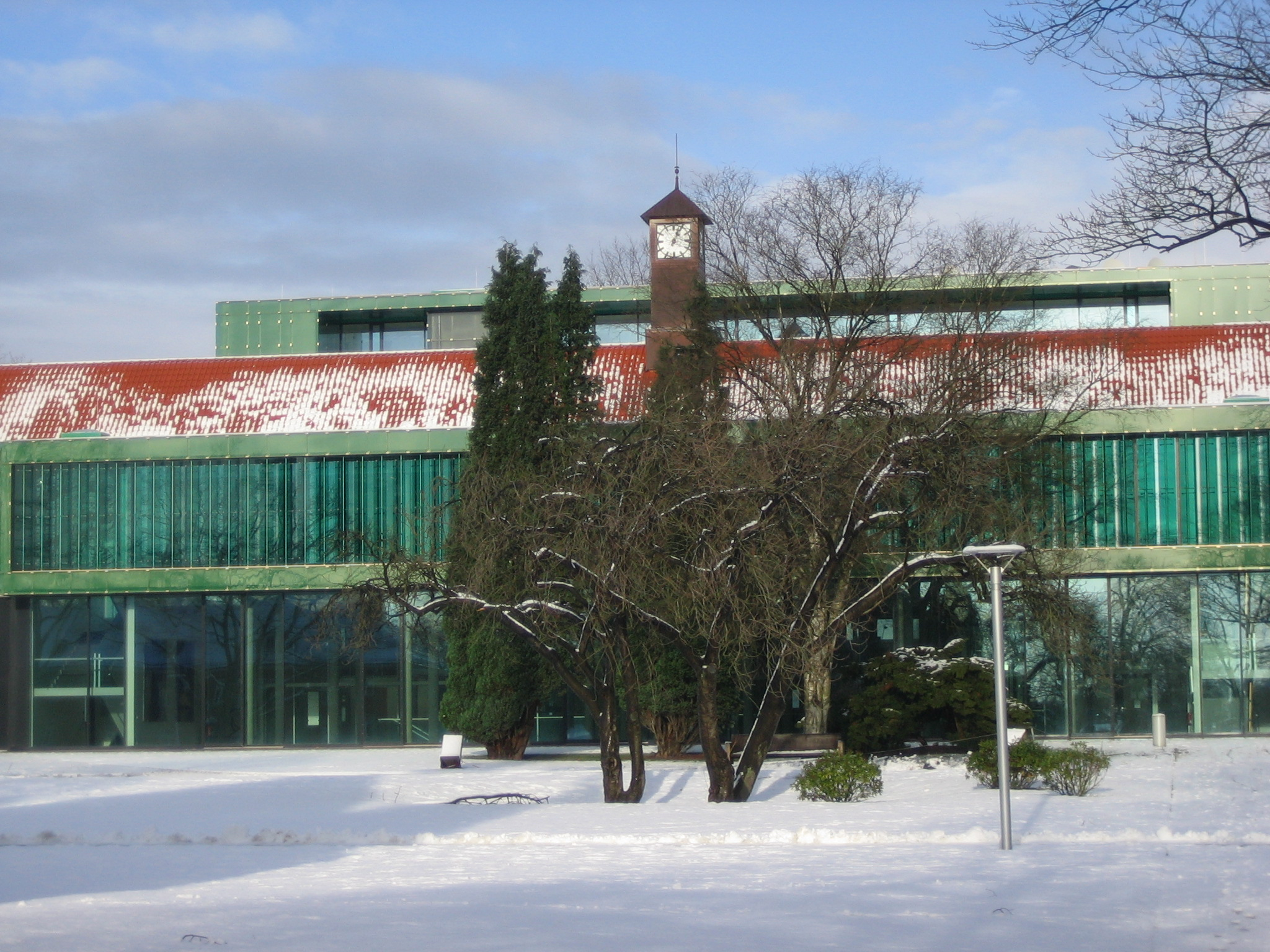 A picture of the Campus Center at International University Bremen. Taken by User:Rune.welsh sometime during December 2005.